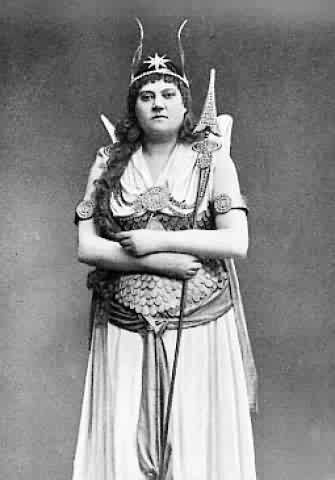 Photo of Alice Barnett as the Fairy Queen in Iolanthe 1882